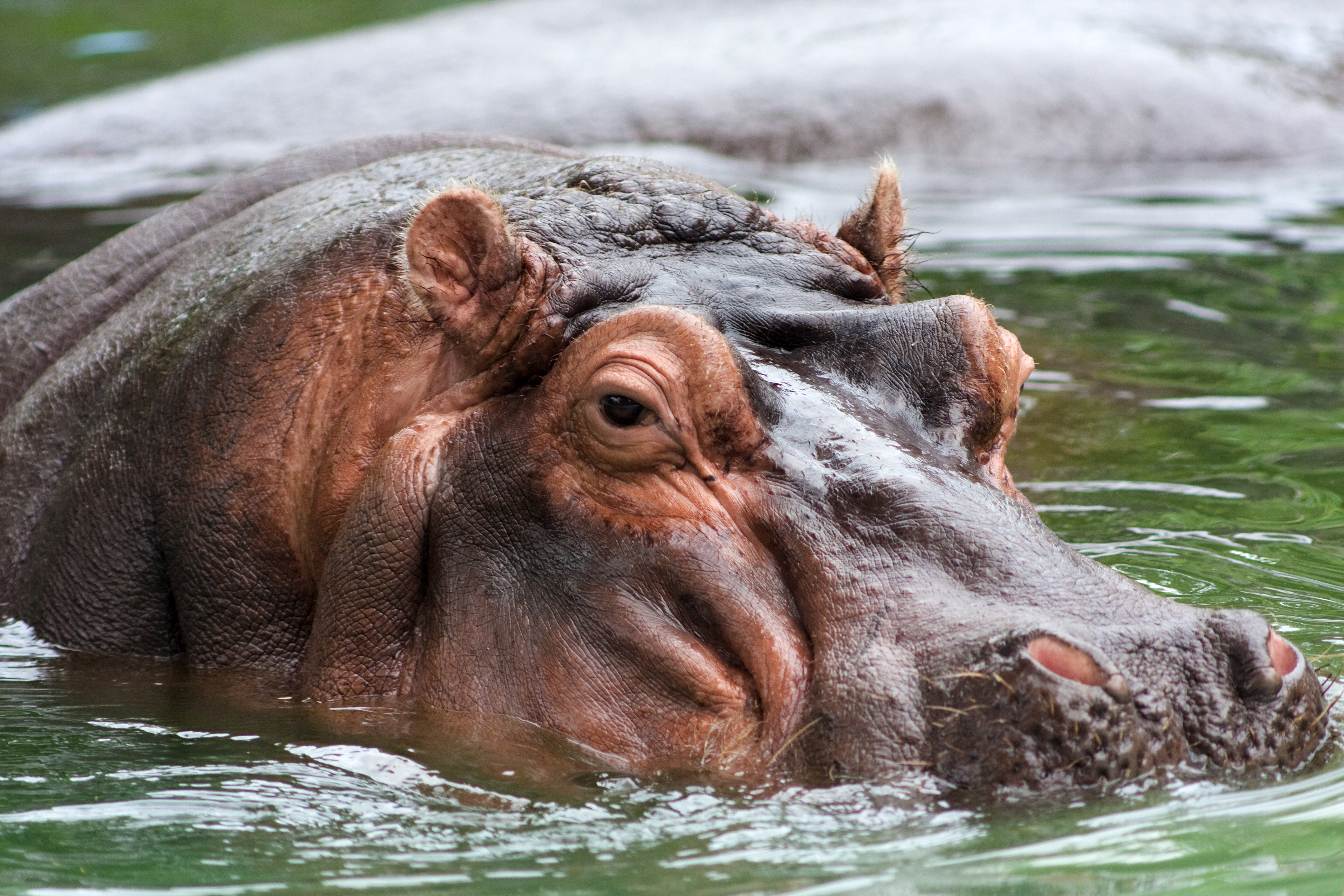 A submerged hippo at the Memphis zoo, circa August 2009.